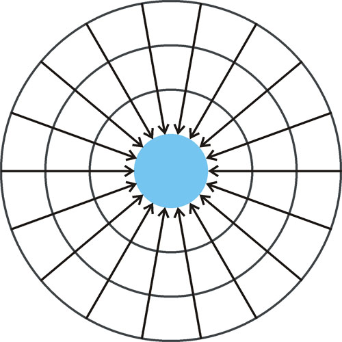 Inverse square law in Le Sage gravity